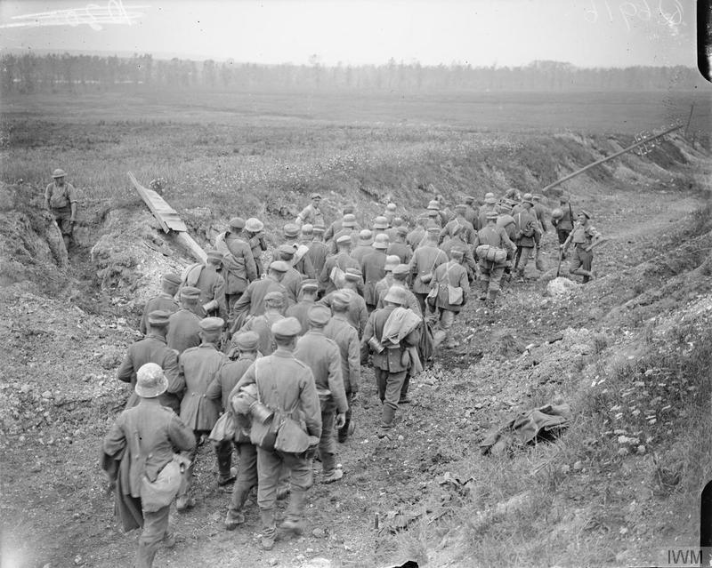 The Hundred Days Offensive, August-november 1918 Battle of Amiens. German prisoners going back. Malard Wood, sector of the 58th Division, 8 August 1918.